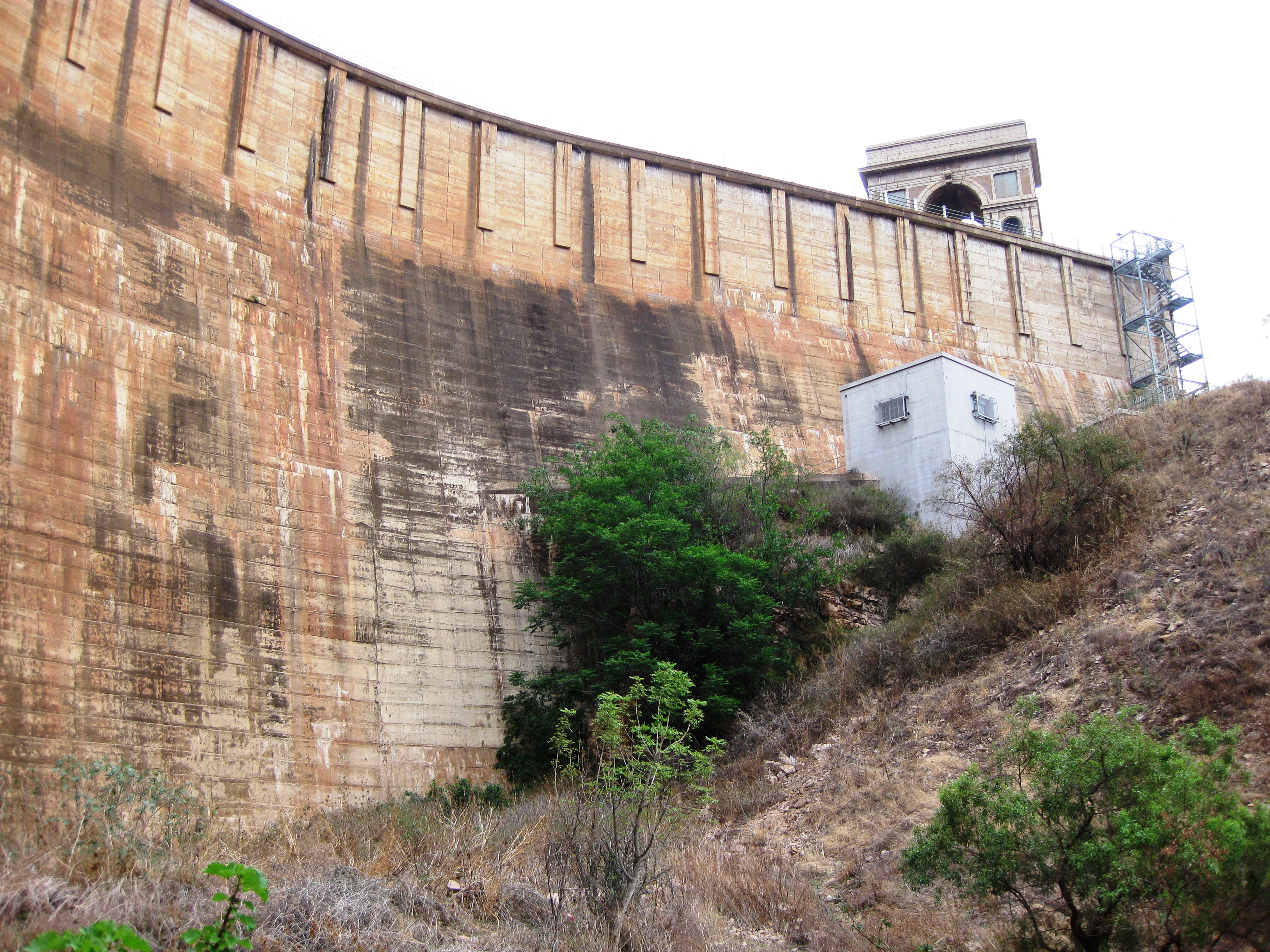 Hartbeespoort Dam wall from the downstream (north) aspect